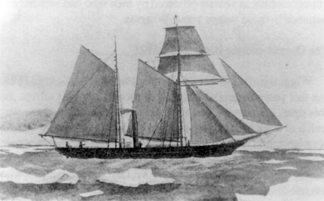 The Thames entering the Kara Sea. The Thames was a British a steamship lost in 1878 while exploring the western part of the northwest passage (the sea route east from Europe to northern Russia and East Asia which runs north of Siberia). The shipwreck was rediscovered in 2016 by researchers from the Siberian State Aerospace University.